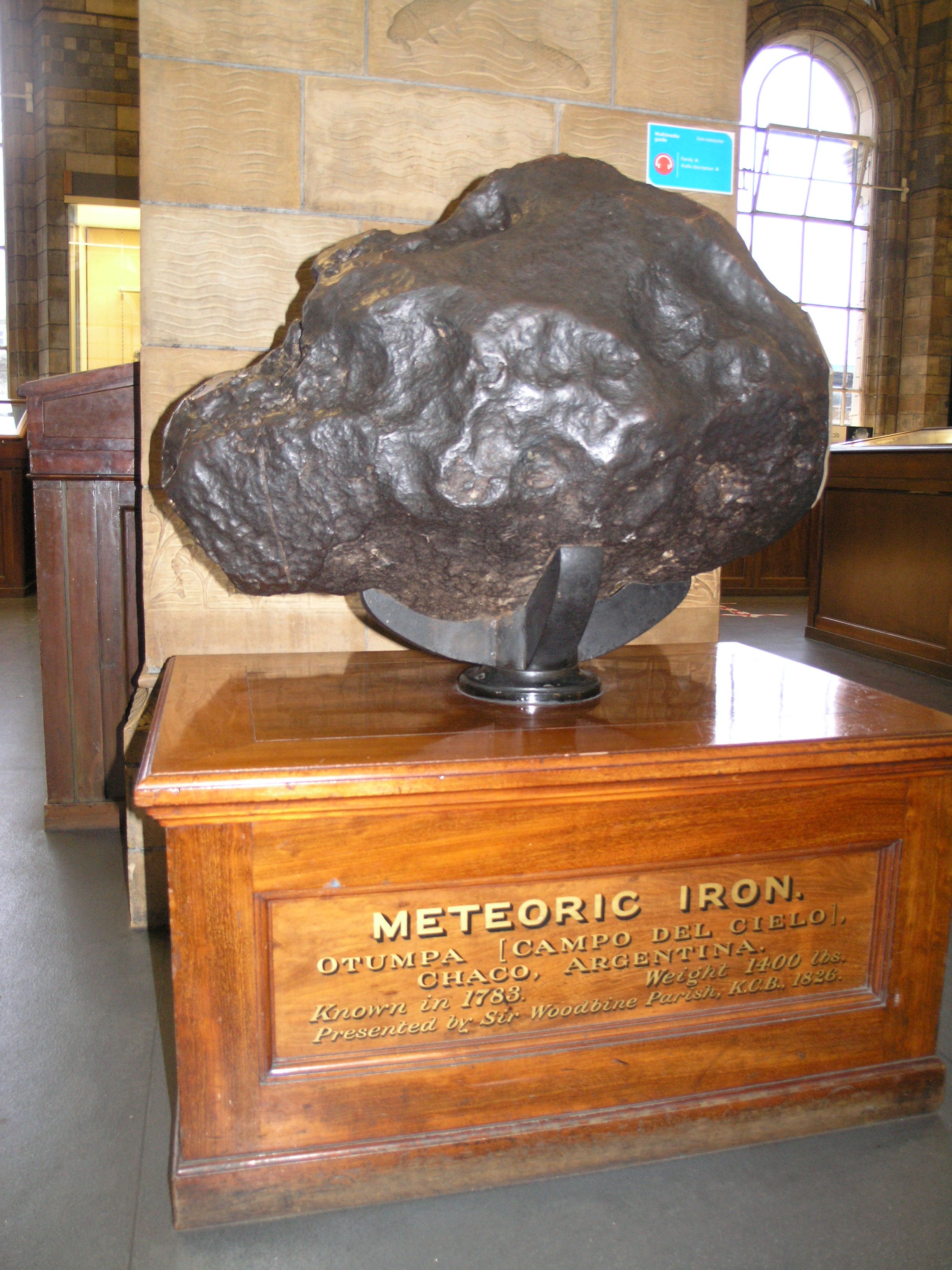 Meteoric iron, weighing 1400 pounds (635 kilogrammes) displayed in the National History Museum in London. Found in 1783 in Chaco, Argentina.